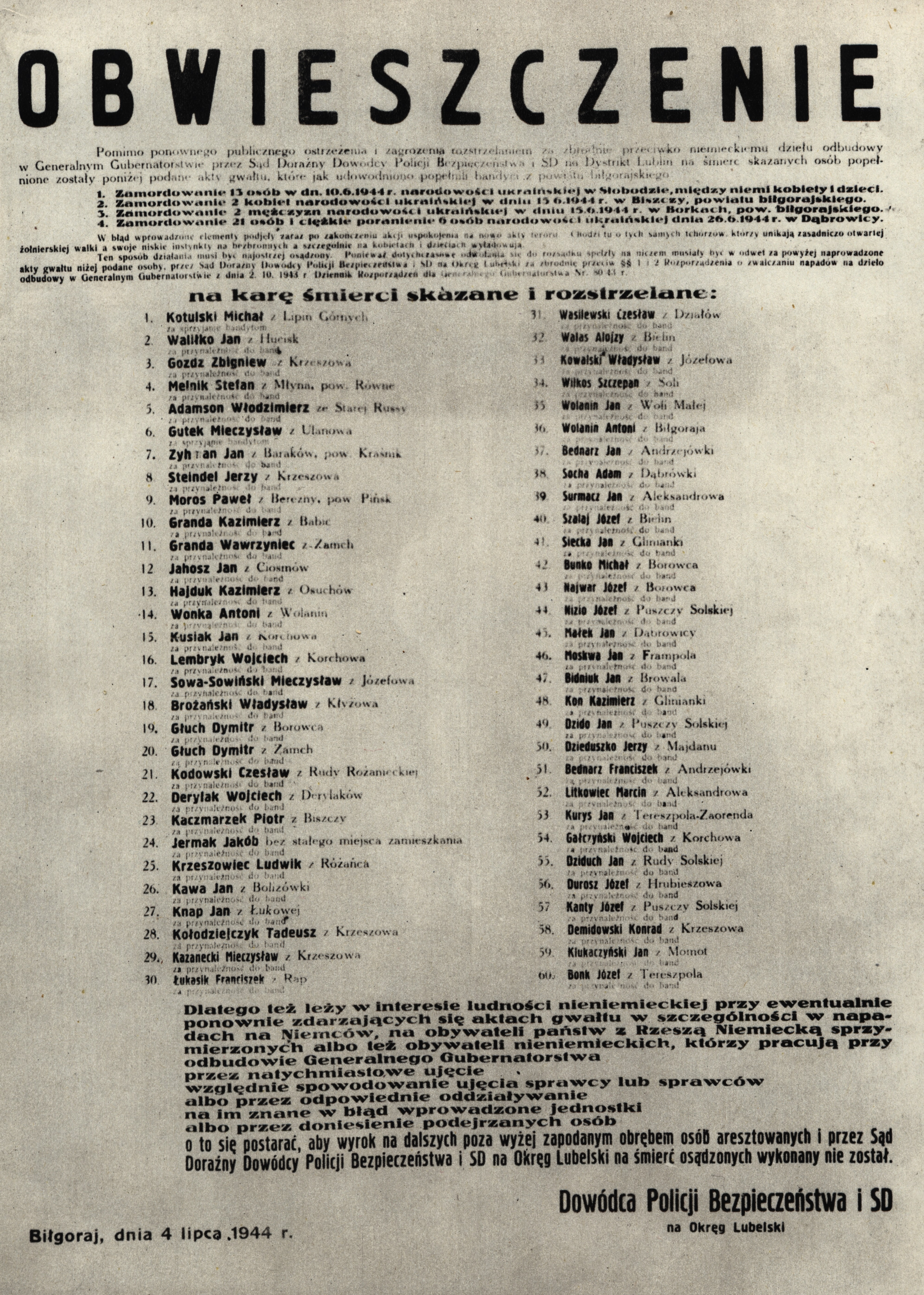 German poster in occupied Poland (dated 4th July 1944), signed by Commandant of SD and Sicherheitspolizei in Lublin – SS-Sturmbannführer dr Karl Pütz, announcing the execution of 60 Poles from Biłgoraj county.